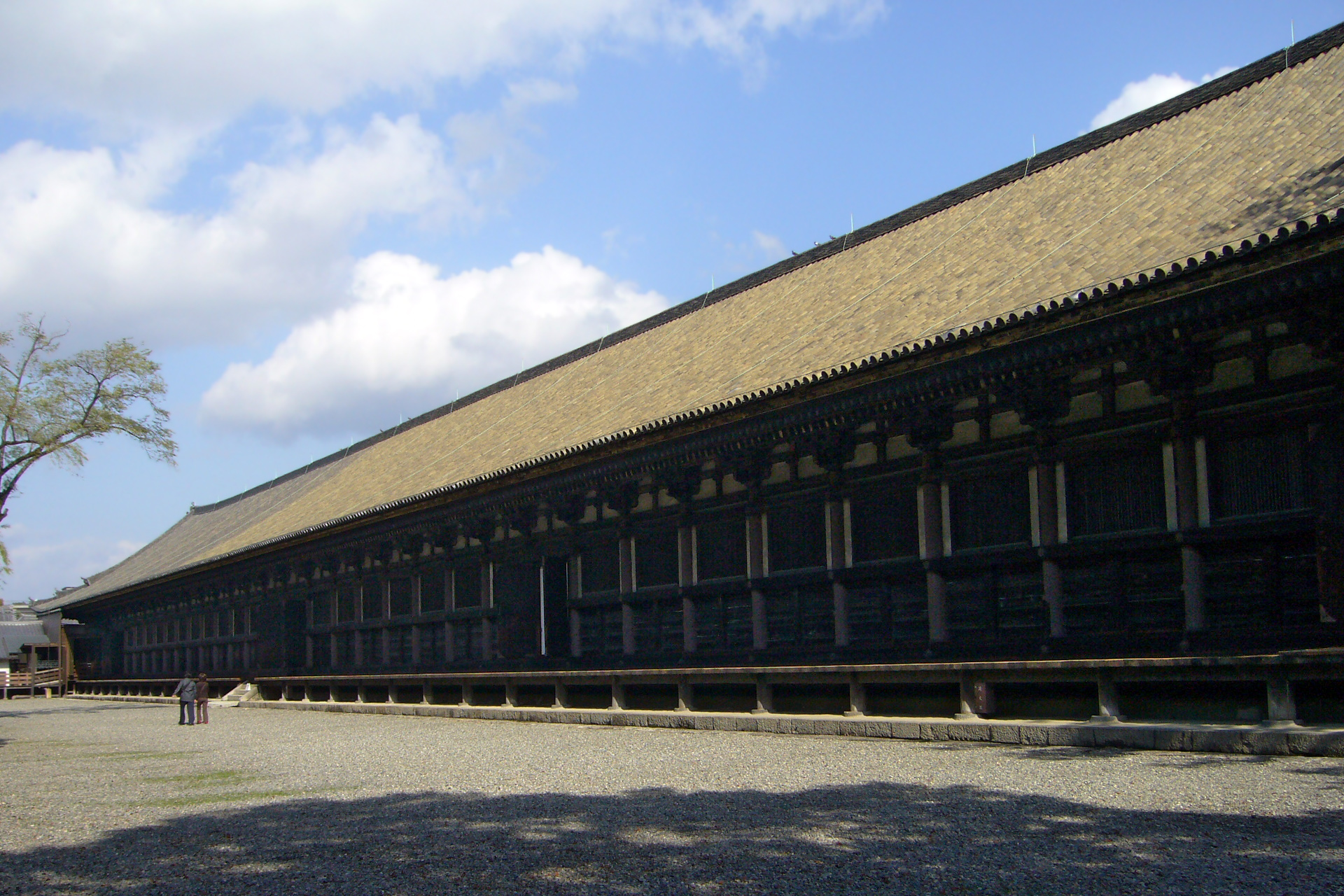 Sanjusangen-dō, a buddhist temple in Kyoto, Japan